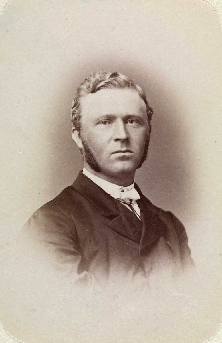 Peter Lorentzen Hærem (1840-1878), Norwegian priest.